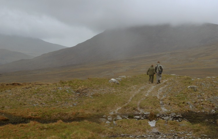 Hiking the Bangor Way through the Nephin Beg Mountains of County Mayo